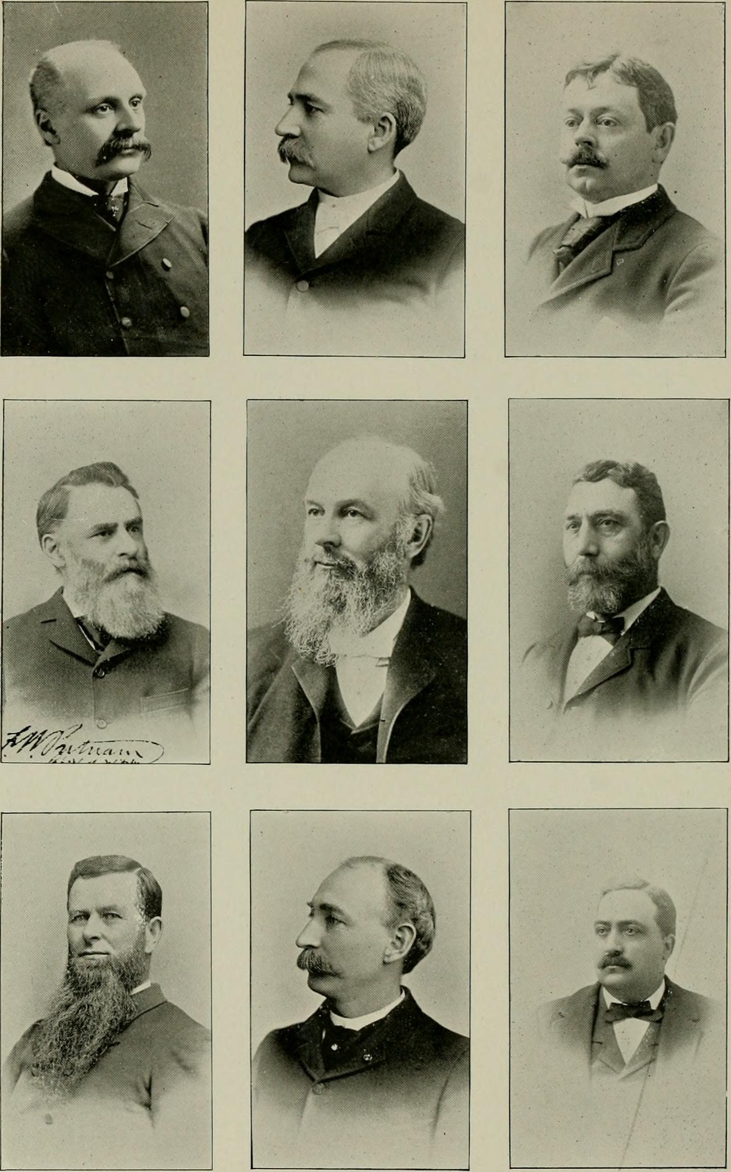 Title: Dedicatory and opening ceremonies of the World's Columbian exposition : historical and descriptive Year: 1893 (1890s) Authors: World's Columbian Exposition (1893 : Chicago, Ill.) Subjects: World's Columbian Exposition (1893 : Chicago, Ill.) Publisher: Chicago, Ill. : Stone, Kastler & Painter Text Appearing Before Image: J. C. WELLING.OTTO YOUNG.EDWIN WALKER. F. S. WINSTON. R. A, WALLER 299 Text Appearing After Image: DEPARTMENT CHIEFS.J, M. SAMUELS, JNO. W. COLLINS, H, PEABODY,ROBINSON. JOHN P. BARRETT, Electricity.WM. I, BUCHANAN, OFFIGIf^L DIRECTORY FOREIGN COMMISSIOXERS IX THE UNITED STATES. Argentine Republic—Mr. Carlos K. Gallardo, Pesident National Commission; Lieut-Juan S. Attwell, Secretary National Commission; Mr. H. D. Hoskold, Mr. Gustavo Nieder.lein, Mr. Eurique M. Nelson. Austria—Hon. Anton von Palitsckek-Palmforst, LL. D., Imperial Royal CommissionerGeneral; Mr. Alexander Poppovics, Assistant Imperial Royal Commissioner; Gaston Bodart,LL. D., Assistant Imperial Royal Commissioner; Mr. Emil Bressler. Architect, Imperial RoyalCommission; Jlr. Hans Temple Delegate for Fine Arts; Mr. Victor Pillwax. Treasurer: Mr.Josef Grunwald, Official Commercial Representative; Mr. Raphael Kuhe, Official Com-mercial Representative; Mr. Emil S. Fischer, Superintendent. Belgium—Mr. Astere Vercruysse, Senator. President of Commission; Mr. AlfredSimonis, Senator, Commissioner General; H. E. Alfred L